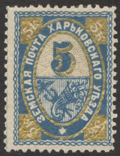 Rural stamp of Kharkov Uezd, Kharkov Governorate, Russian Empire (No. 19-b; 1896-98).